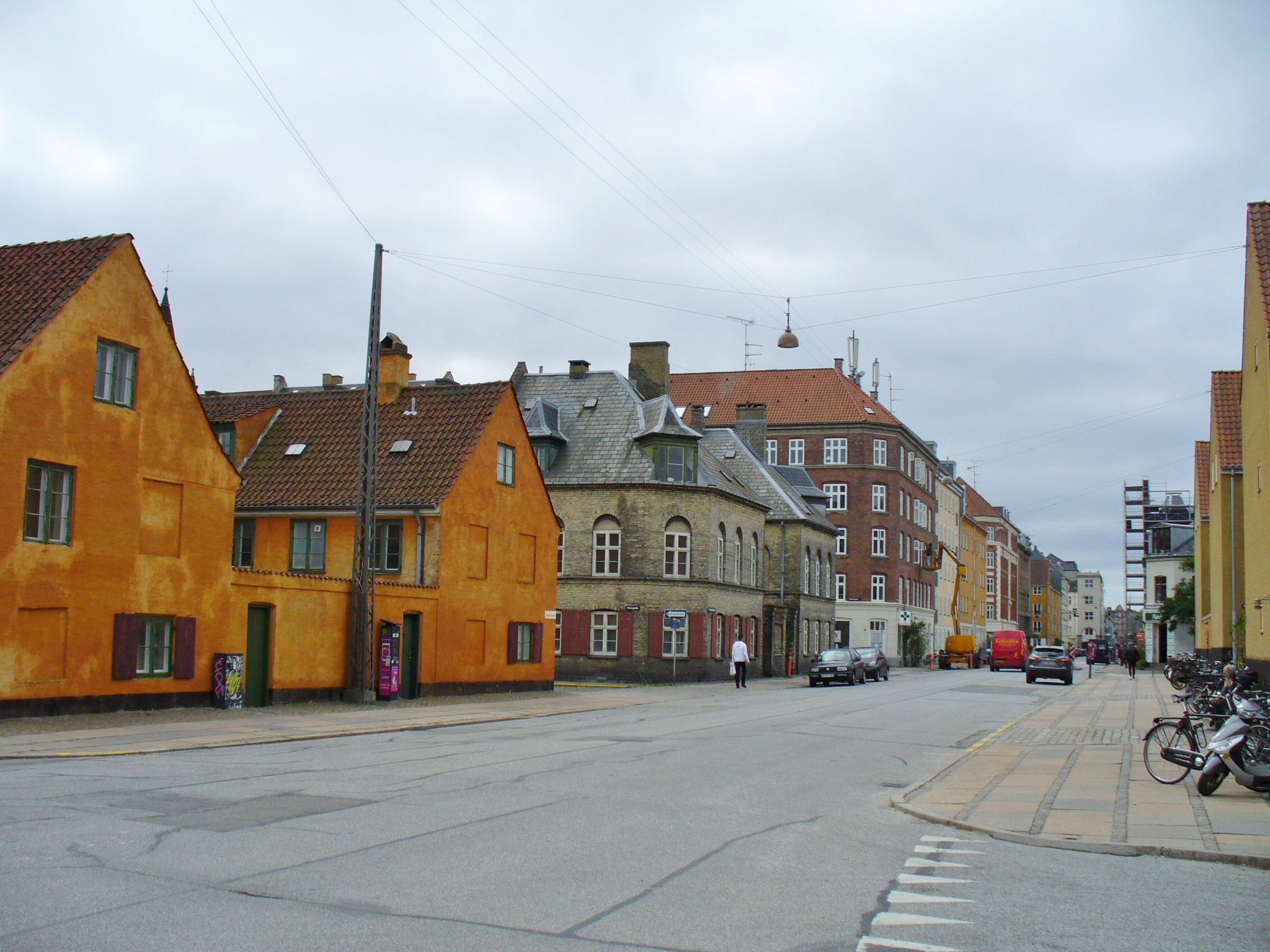 The street Kronprinsessegade at Suensonsgade in the area Nyboder in Copenhagen.